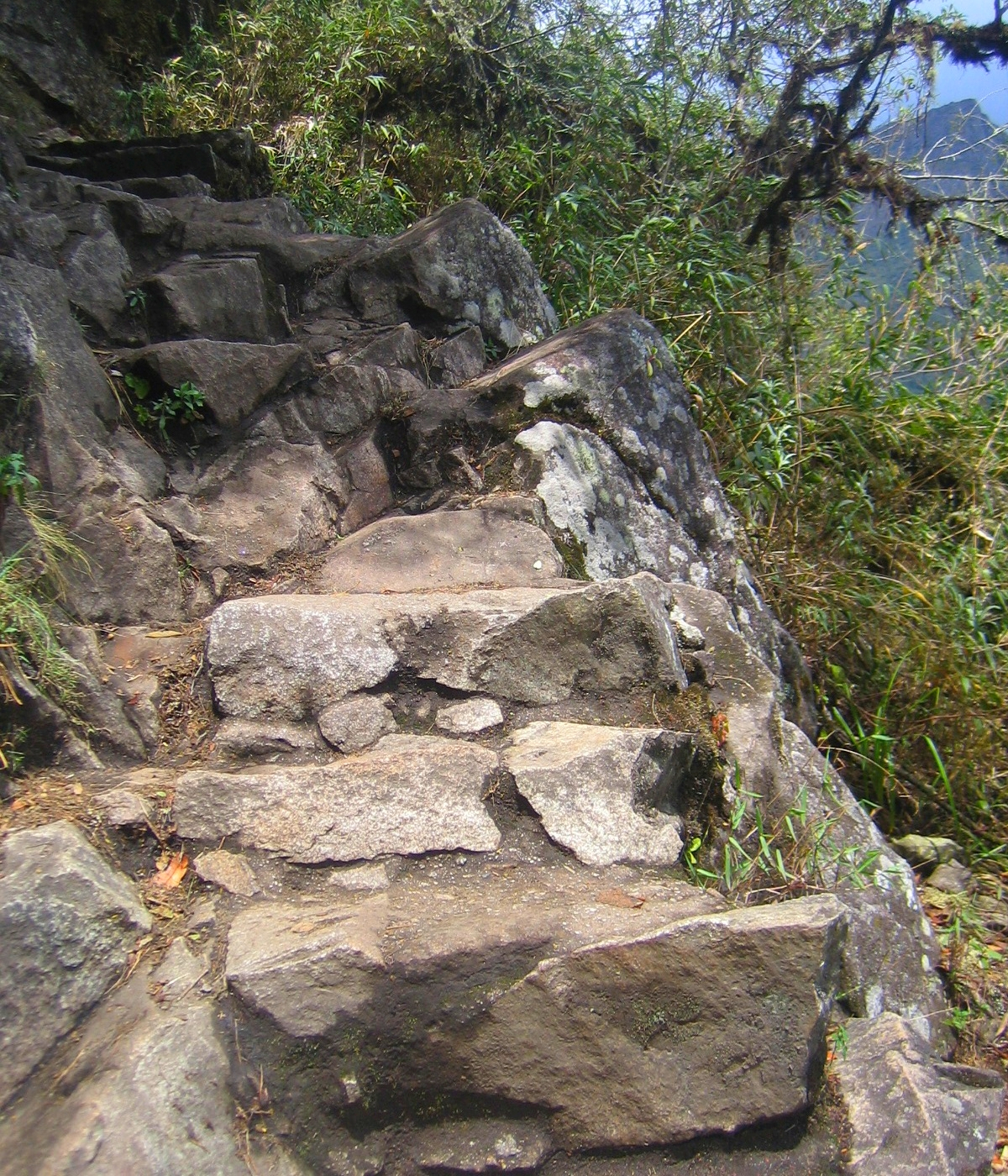 Hiking track between Machu Picchu and Huayna Picchu (Peru)